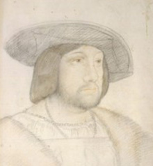 Artistécole de Jean Clouet (1475–1540) DescriptionFlemish portrait painter father of François ClouetDate of birth/death14751540Location of birth/deathFlandernParisWork locationTours, ParisAuthority control VIAF: 79398939 ISNI: 0000 0000 9875 4652 LCCN: no94001837 WGA: CLOUET, Jean GND: 118669575 WorldCat Title